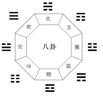 Bagua(or eight trigrams) image.